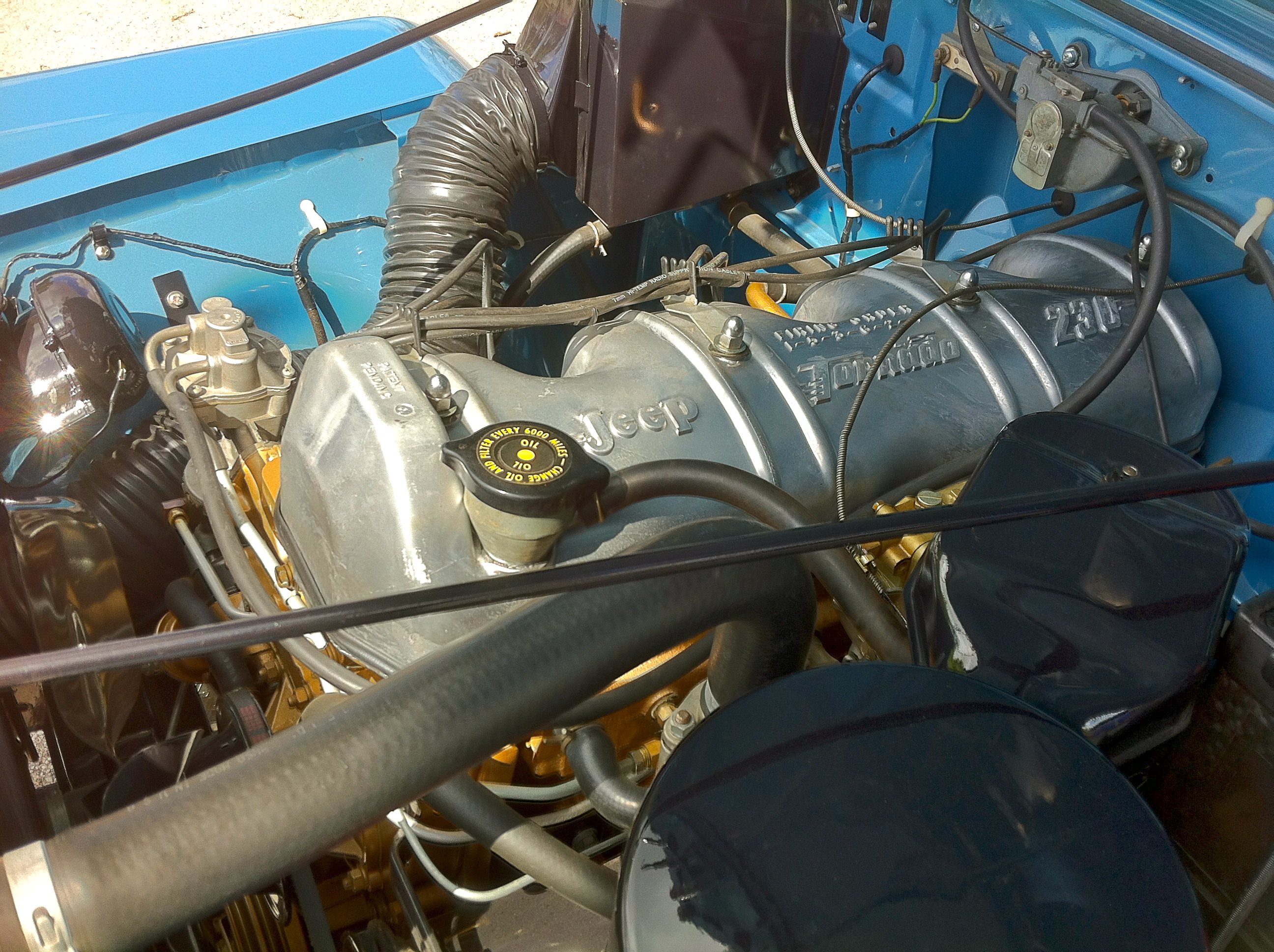 1963 Jeep Willys pickup truck by built by Kaiser - left side view of the 230 cu in (3.78 L) OHC "Tornado" straight-six engine. Picture taken at the 2013 Antique Automobile Club of America (AACA) meet in Lakeland, Florida, USA.